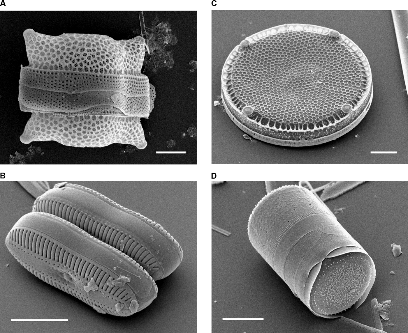 Scanning Electron Micrographs of Diatoms. (A) Biddulphia reticulata. The whole shell or frustule of a centric diatom showing valves and girdle bands (size bar = 10 micrometres). (B) Diploneis sp. This picture shows two whole pennate diatom frustules in which raphes or slits, valves, and girdle bands can be seen (size bar = 10 micrometres). (C) Eupodiscus radiatus. View of a single valve of a centric diatom (size bar = 20 micrometres) (D) Melosira varians. The frustule of a centric diatom, showing both valves and some girdle bands (size bar = 10 micrometres).